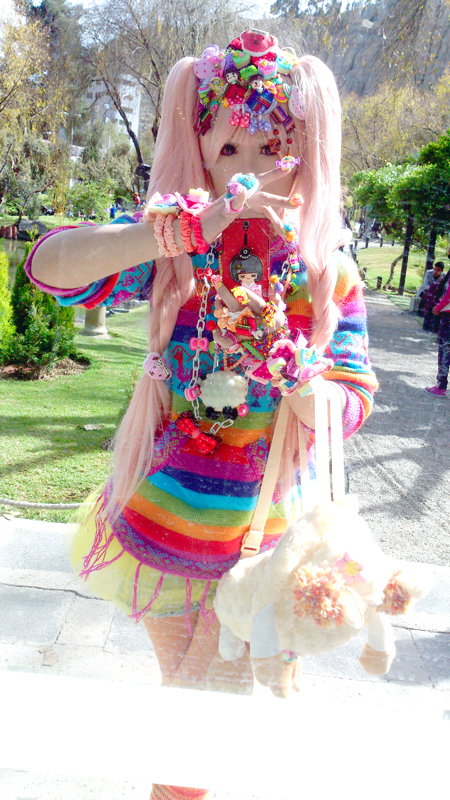 Rainbow Decora Style